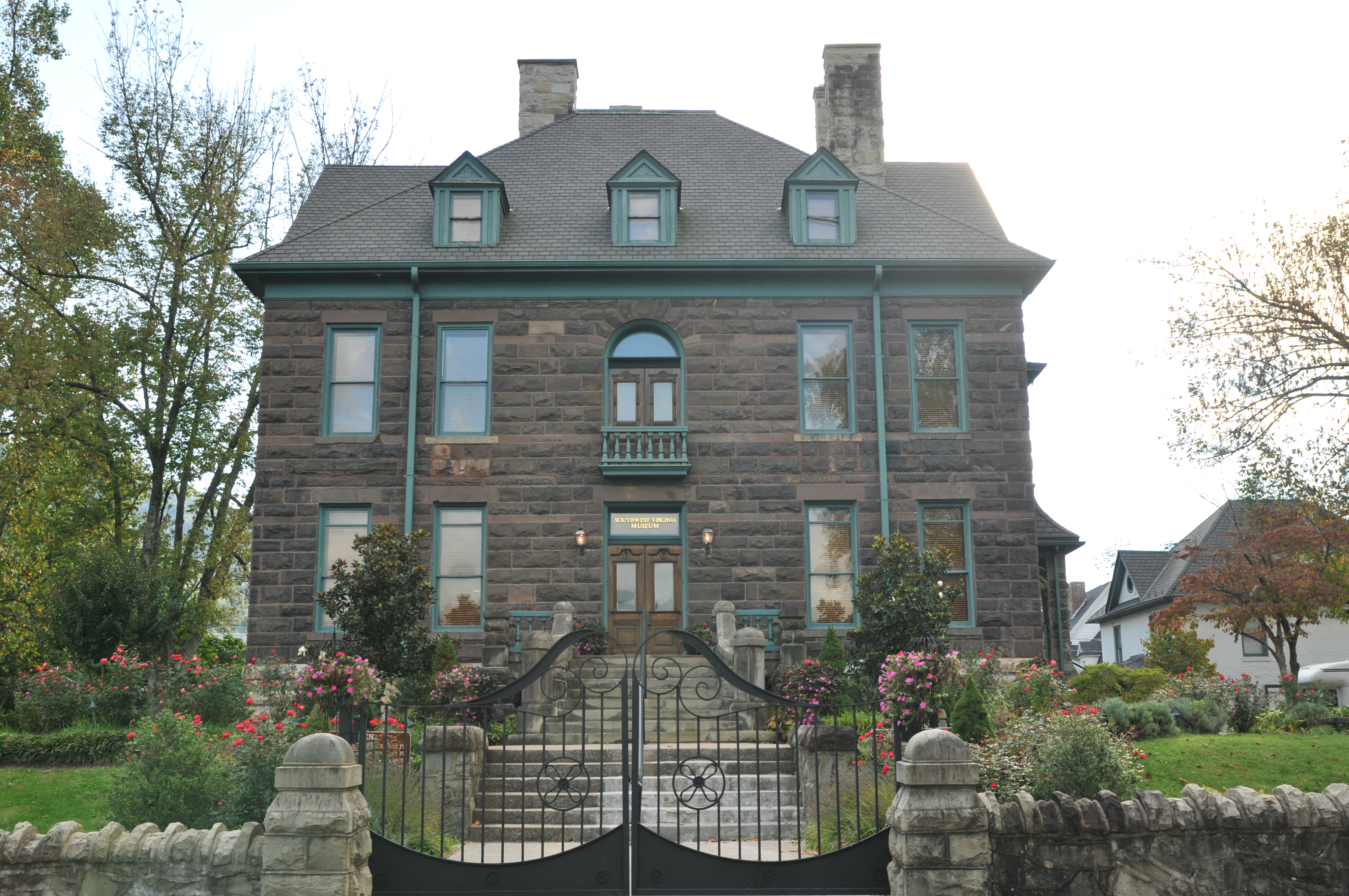 Southwest Virginia Museum Historical State Park, 10 W. Street N Big Stone Gap